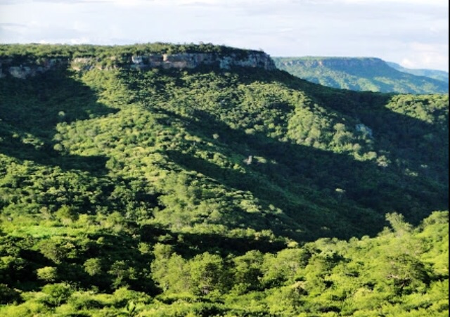 Serra